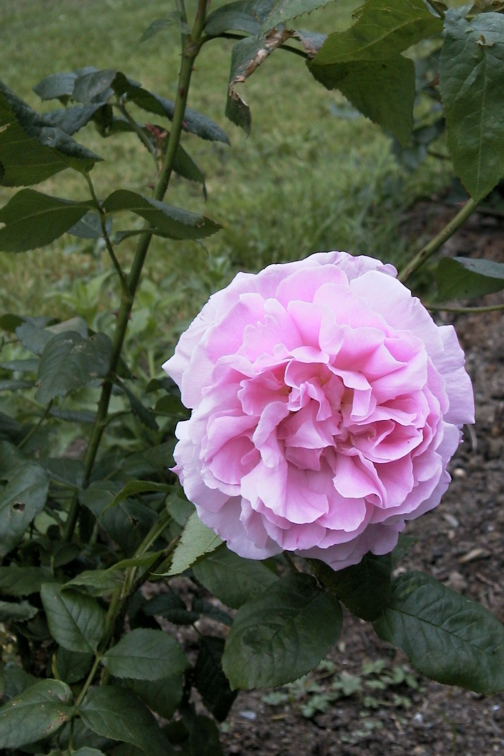 Rosa 'Wife of Bath', Austin 1969